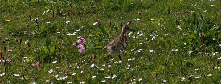 Godwit chick, about 2 weeks old